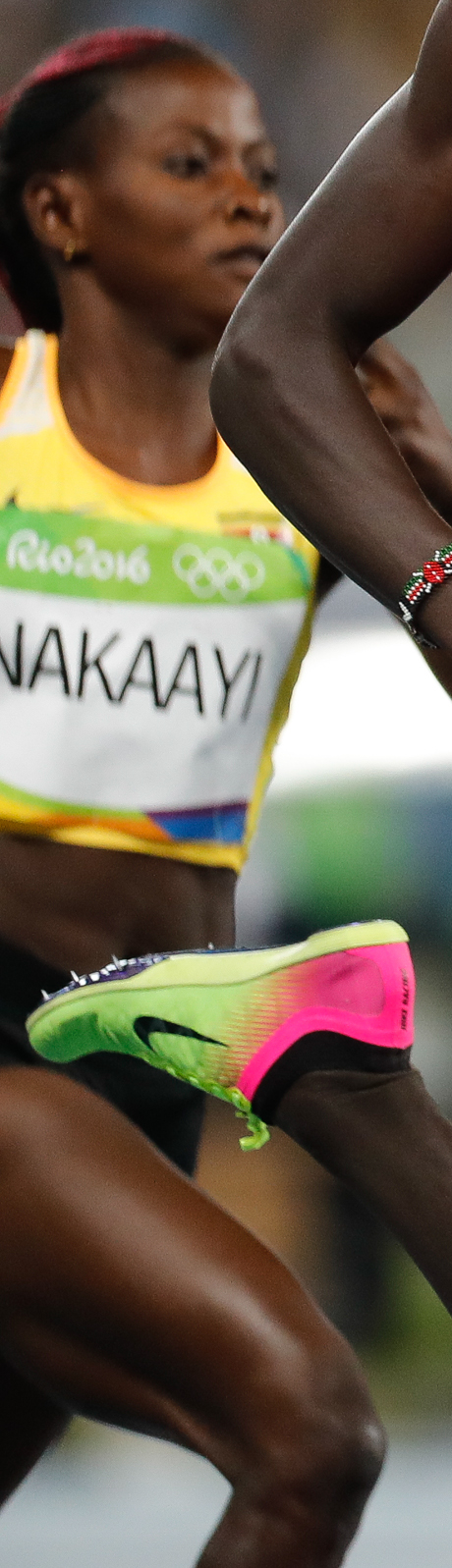 Rio de Janeiro - Semifinais dos 800m feminino nos Jogos Rio 2016, no Estádio Olímpico. (Fernando Frazão/Agência Brasil)